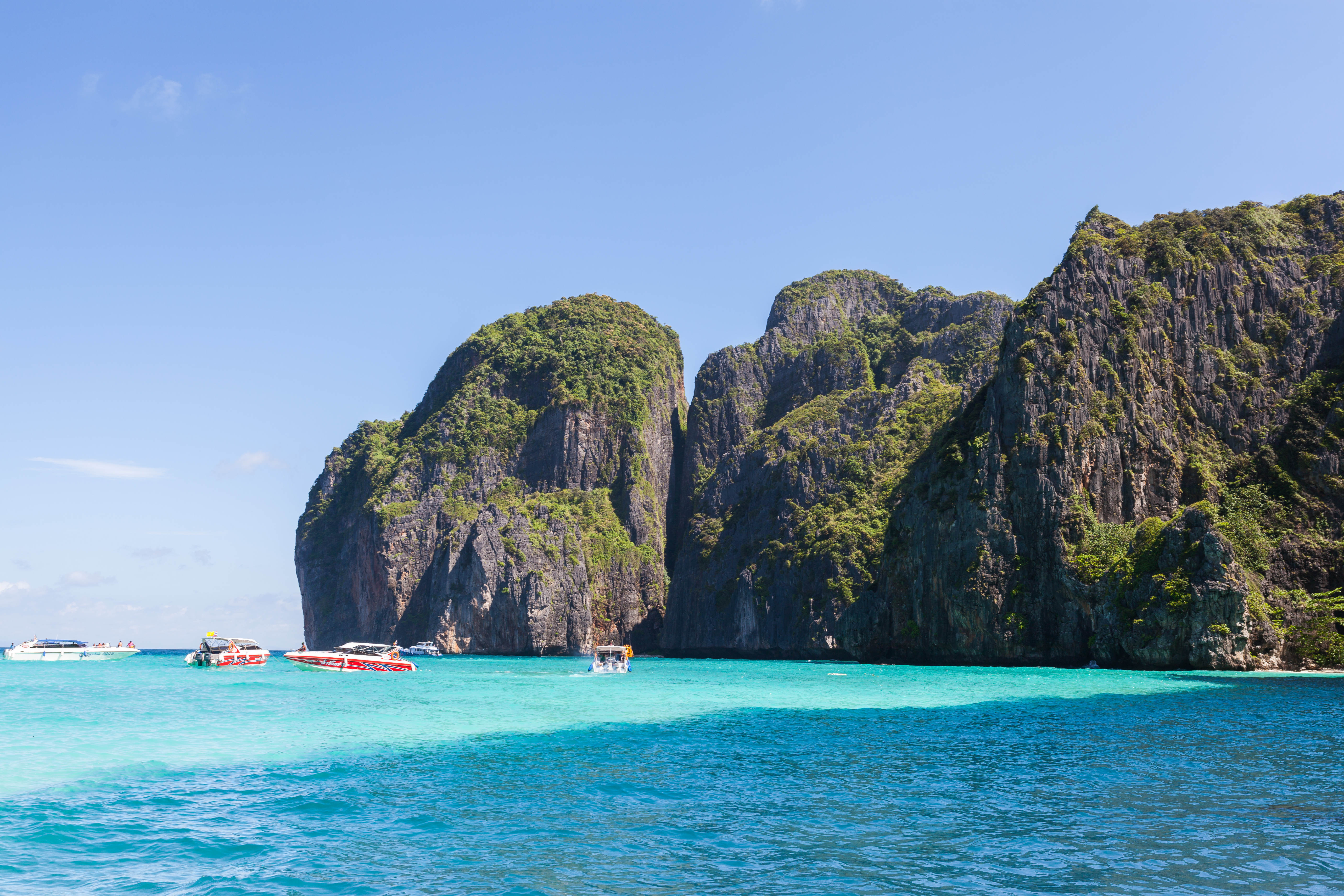 Maya Beach, Ko Phi Phi, Thailand